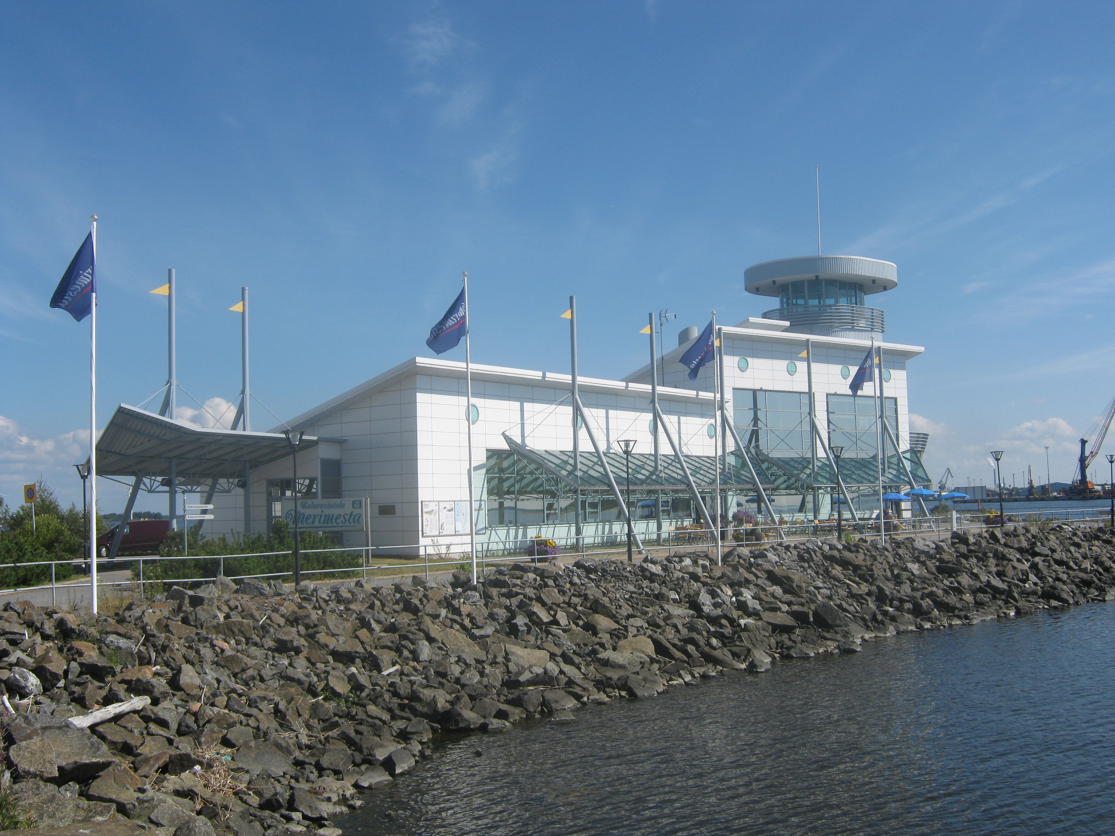 Seafood restaurant "Merimesta" at fishing port of Reposaari island, Pori, Finland.